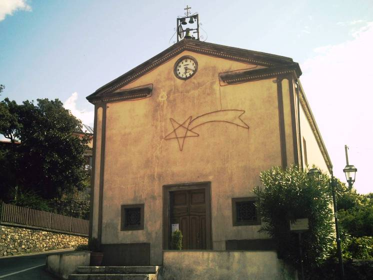 church of Massa